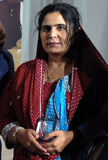 Ghulam Sughra of Pakistan at the 2011 International Women of Courage awards